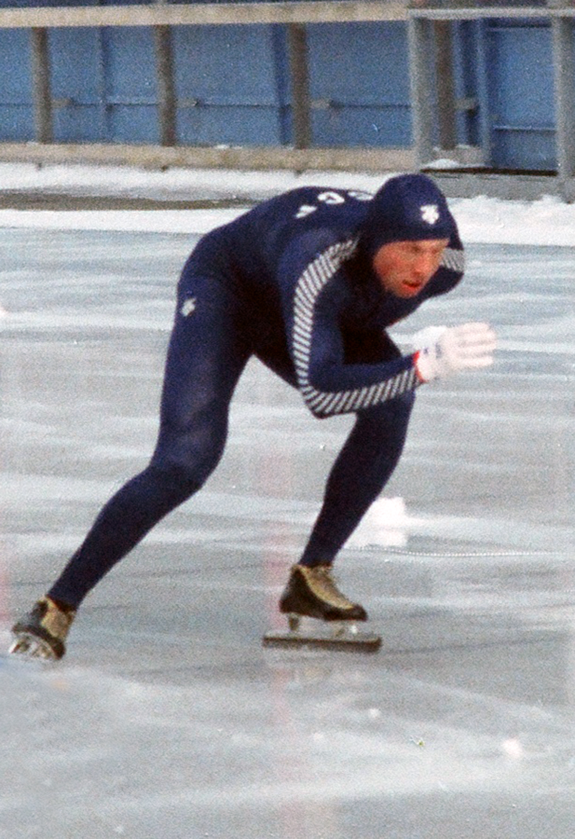 Oleg Bozjev, speedskater from Russia.